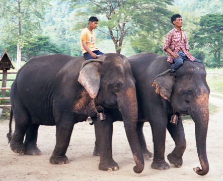 Mahouts riding two elephants at the Elephant Nature Park. Photo taken by Julie Sutherland (my partner) in November 2003.